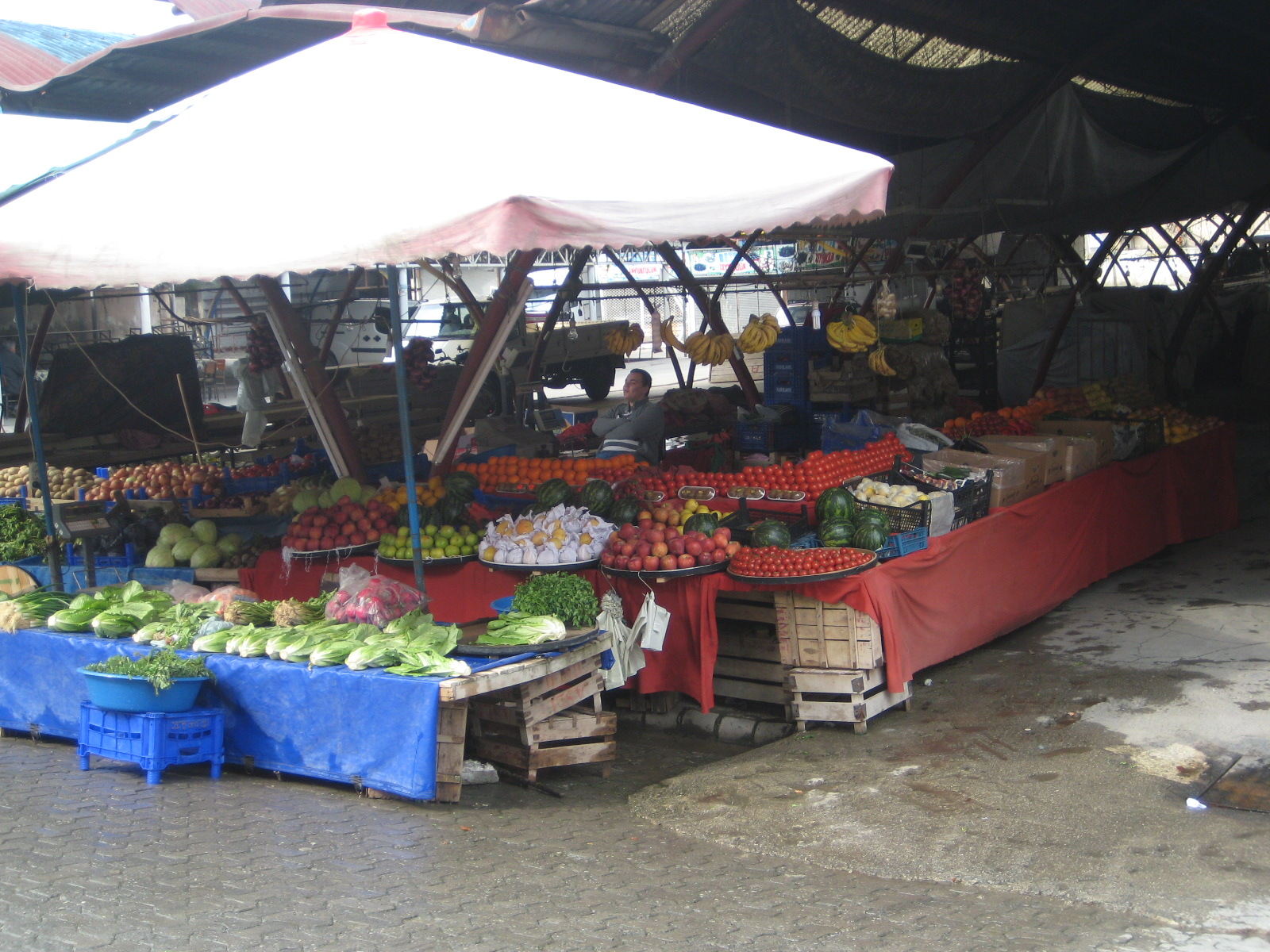 A fruit market in Alasehir, a major farming town.